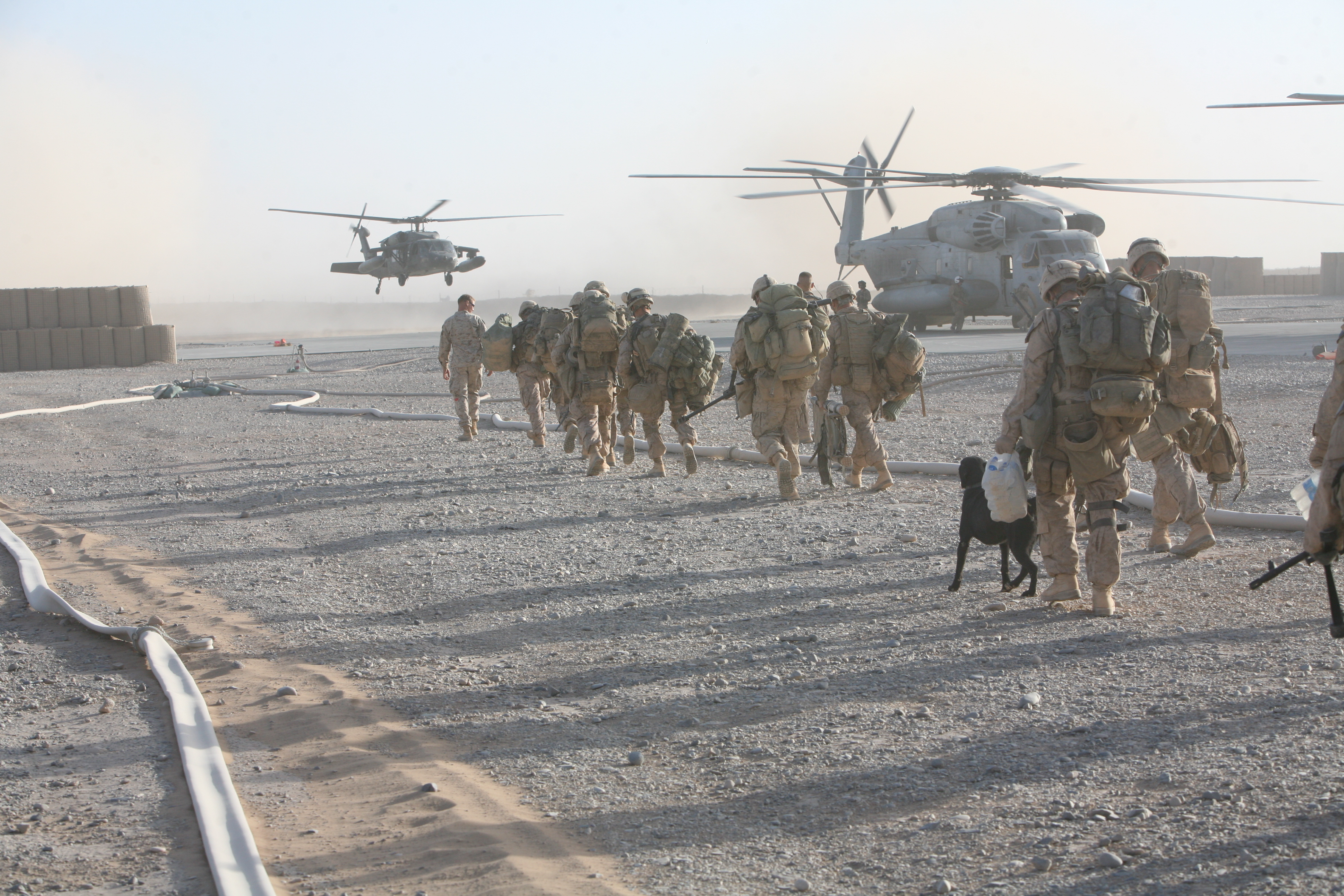 U.S. Marines with 2nd Battalion, 8th Marine Regiment, Regimental Combat Team 3, 2nd Marine Expeditionary Brigade, along with approximately 650 Afghan soldiers and police officers from the Afghan National Security Force (ANSF), prepare to board CH-53 Super Stallion and CH-53E Super Stallion helicopters at Forward Operating Base Dwyer, Afghanistan, July 2, 2009. The Marines and ANSF are partnered for a major operation in the Helmand Province to transition security responsibilities to the Afghan forces. The Marines and ANSF will move into towns and villages along the Helmand River Valley in an effort to secure the population from the threat of the Taliban and other insurgent intimidation and violence.